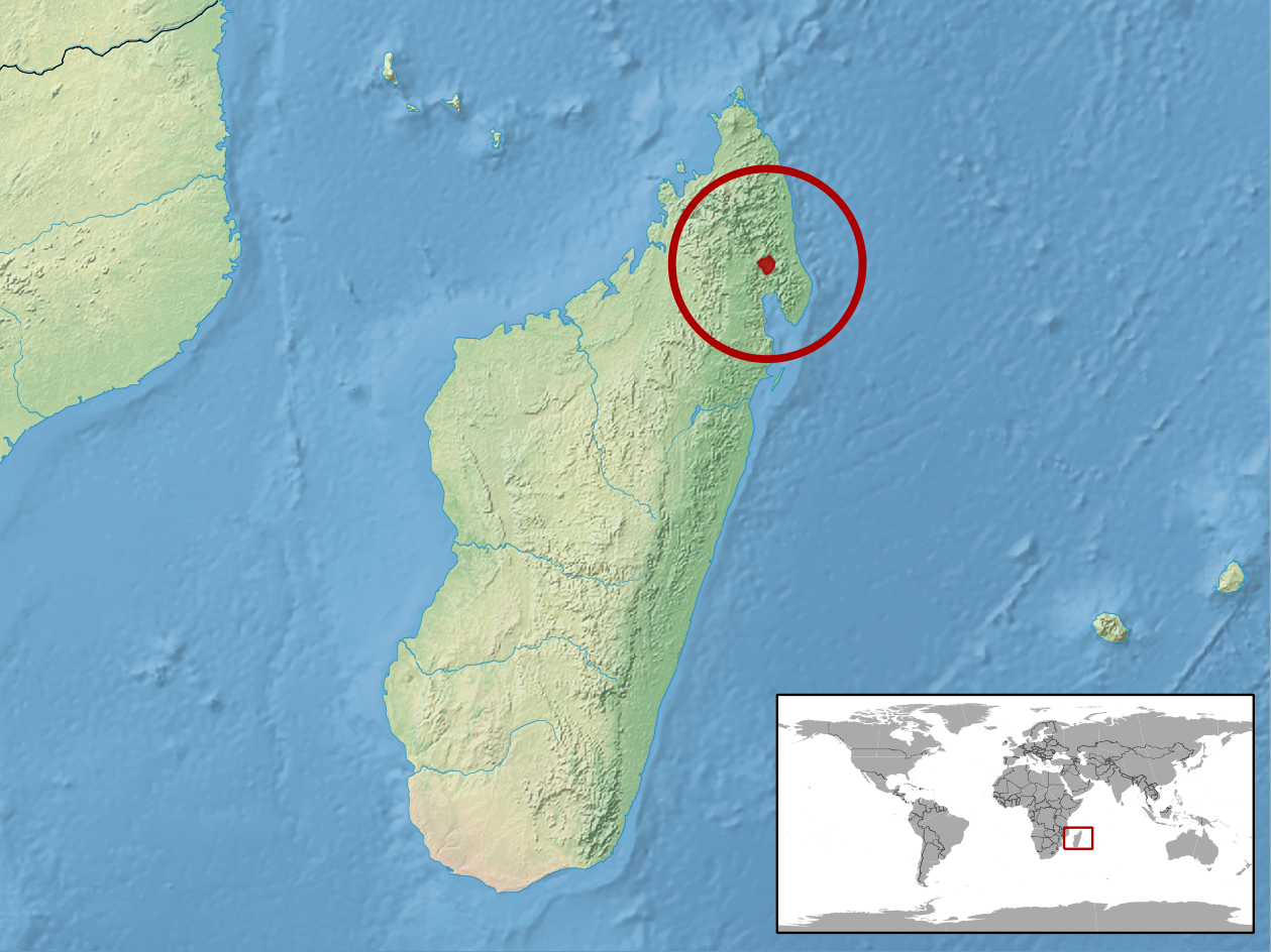 geographic distribution of Paracontias tsararano